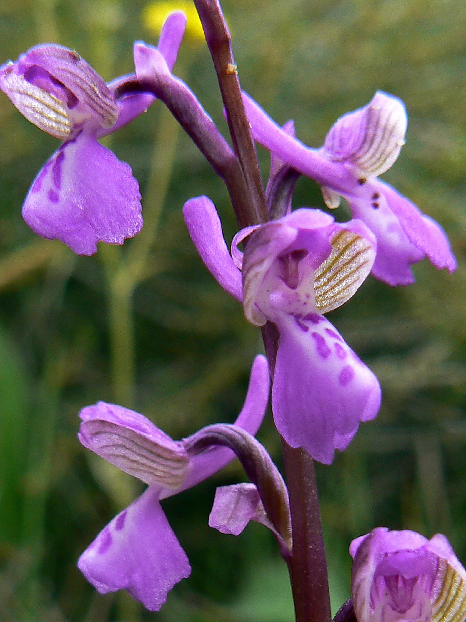 Anacamptis morio subsp. picta, Massif des Maures, Var, France. Detail of flower.